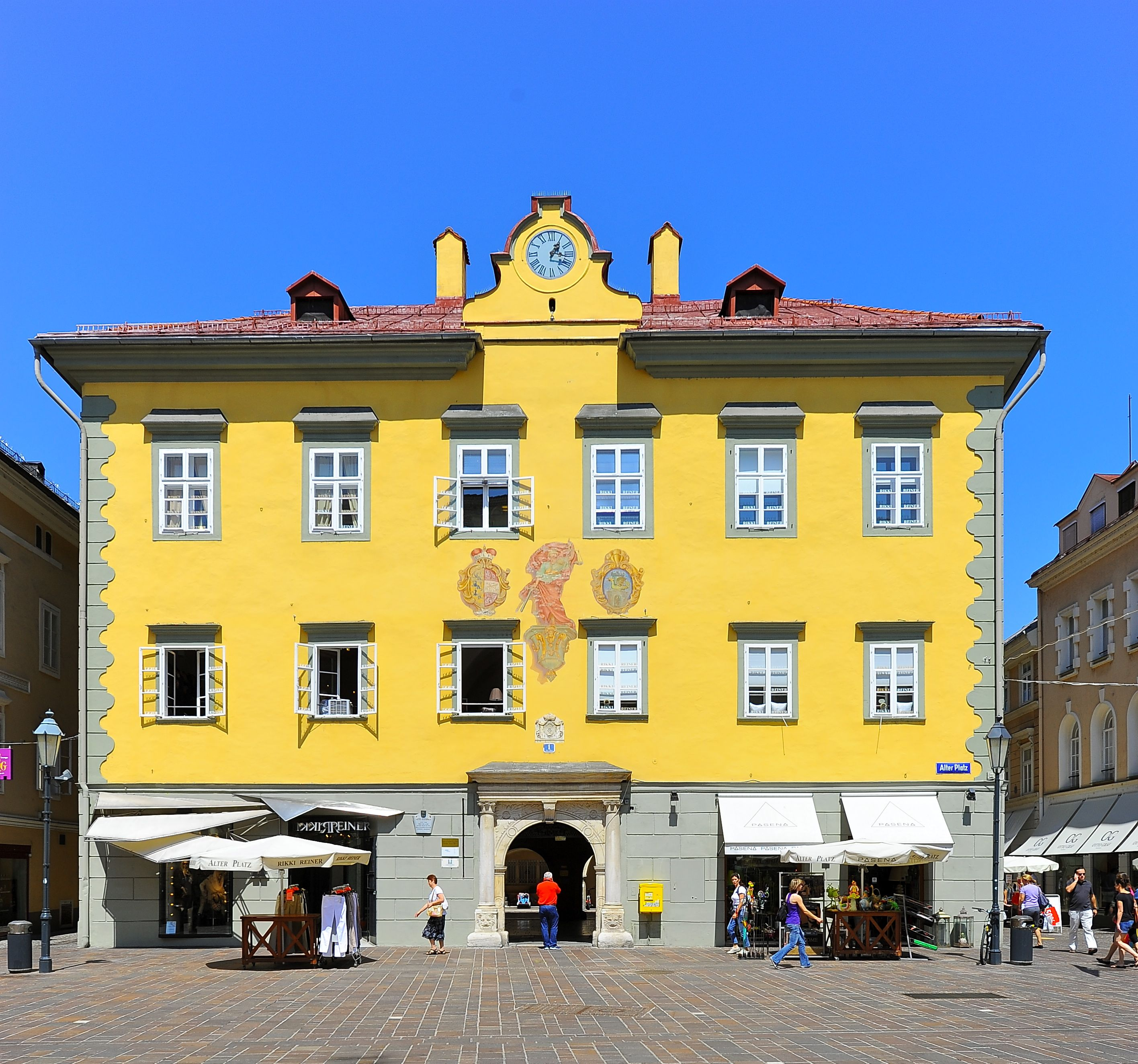 Palais Rosenberg, old municipal office on Alter Platz #1, inner city, Klagenfurt, Carinthia, Austria, EU